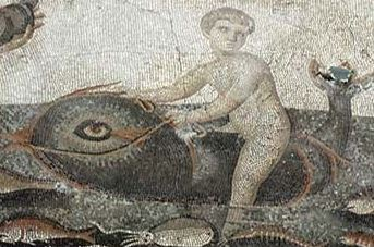 Palaemon riding a dauphin, greco-roman mosaic, 5th before JC, Archeological museum, Antakya